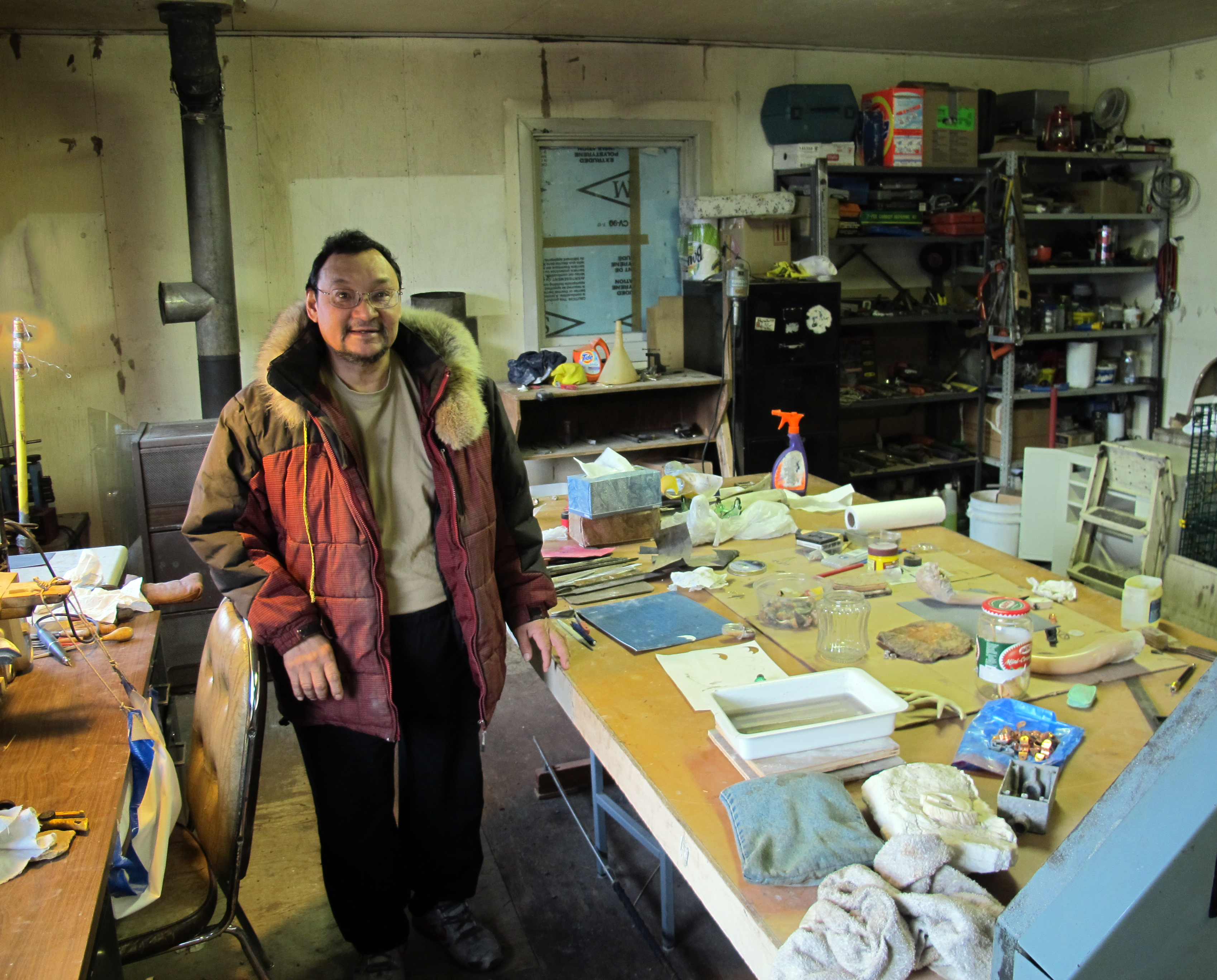 Looty Pijamini in his humble shop where he creates his famous carvings.